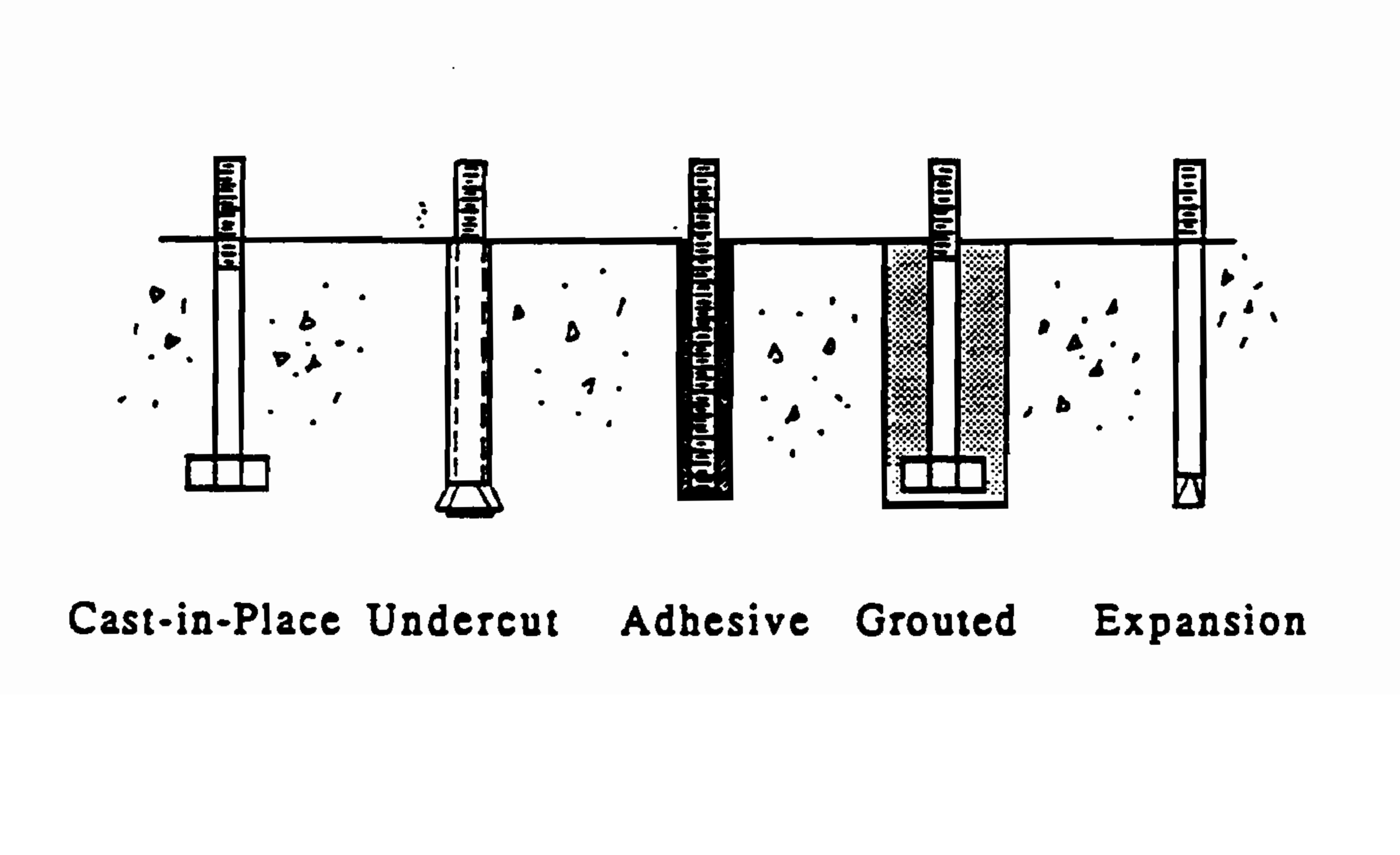 Mechanical Anchors types